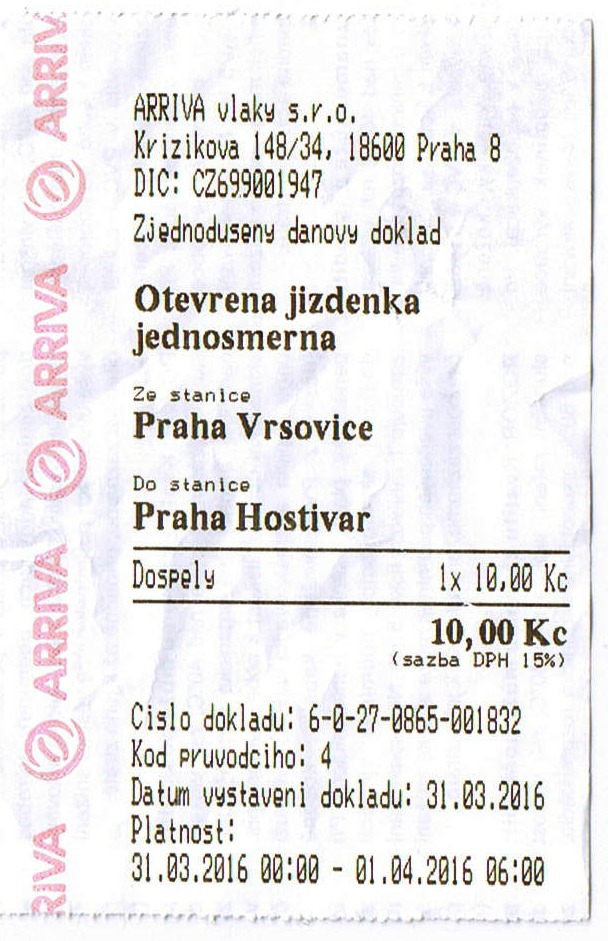 Rail ticket, Arriva vlaky.